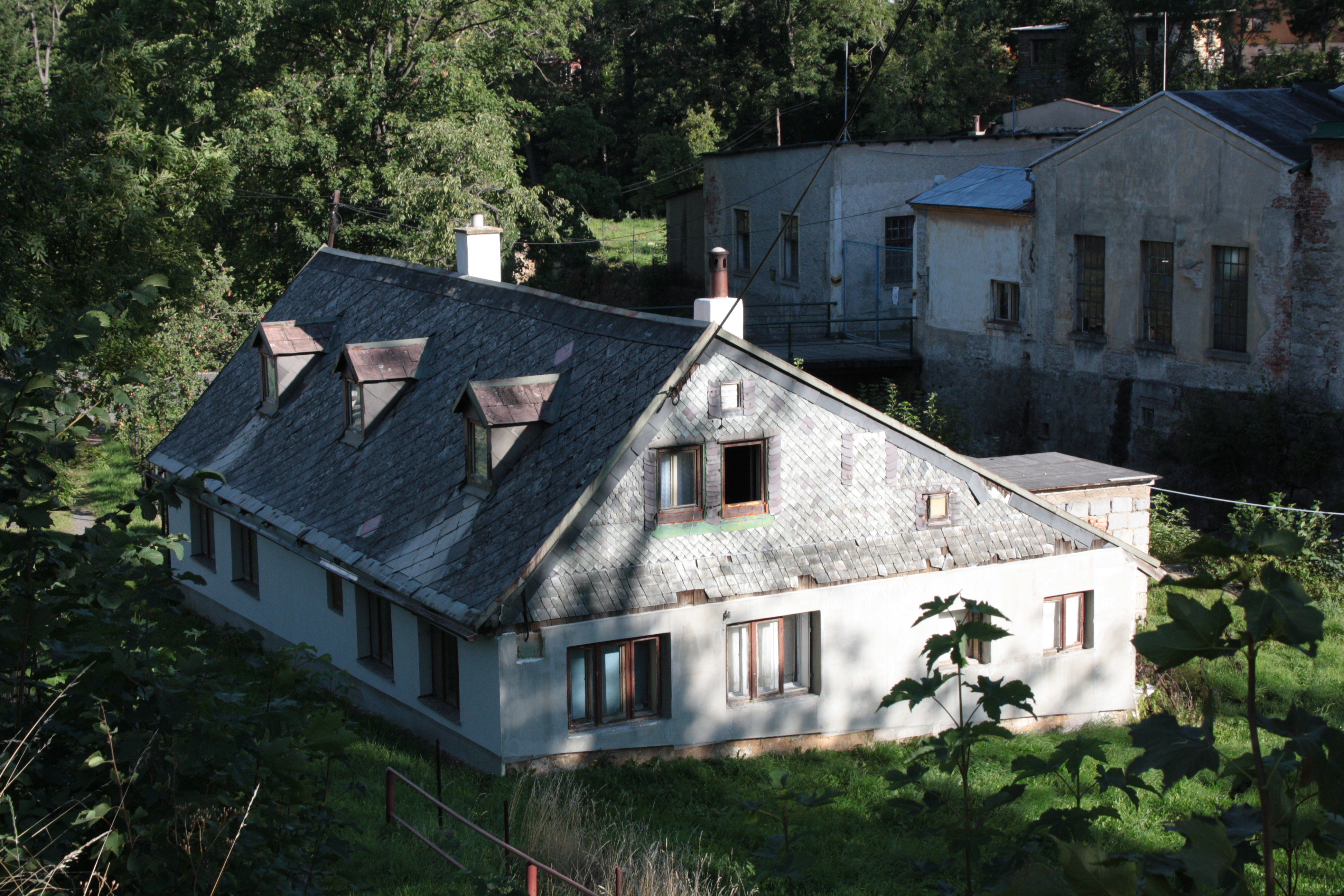 This photograph was taken with a DSLR from WMCZ's Camera grant. Dům číslo popisné 250 v Bílém Potoce.